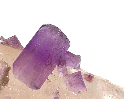 Apatite-(CaF), Quartz Locality: Lavra do Pederneira, Minas Gerais, Brazil Size: small cabinet, 8.8 x 3.4 x 1.7 cm Fluorapatite on Quartz (floater) This extremely elegant combination specimen is one of just a very few of such quality to have come out about 5 years ago. It is complete-all-around and really fine. The color of the purple apatites (which are to almost 1 cm in size) leaps out at you - they could pass for Maine apatite, easy.